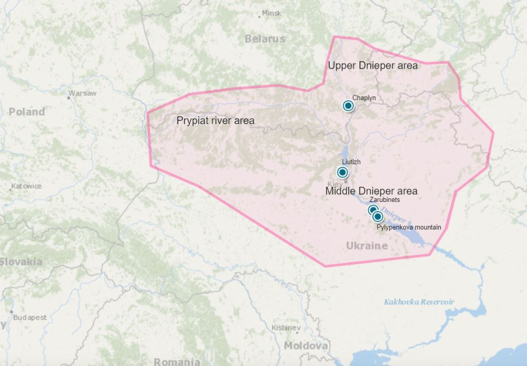 Disribution zone of Zarubinets culture with distinguished three internal areas and most remarkable archaeological sites belongs to this culture